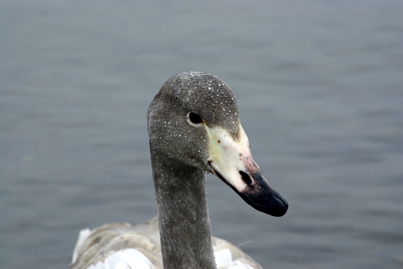 Young Whooper Swan at Lake Kussharo, Teshikaga, Hokkaido, Japan